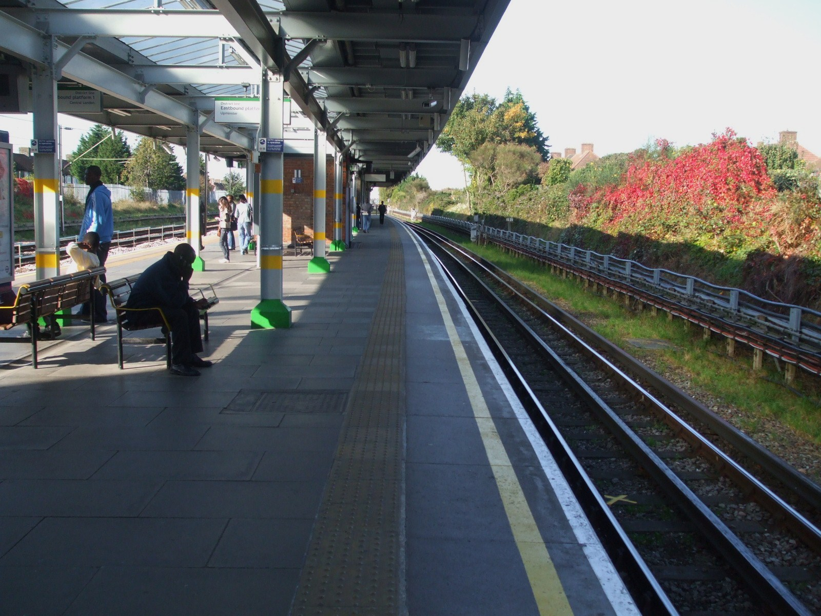 Dagenham Heathway tube station eastbound platform looking west